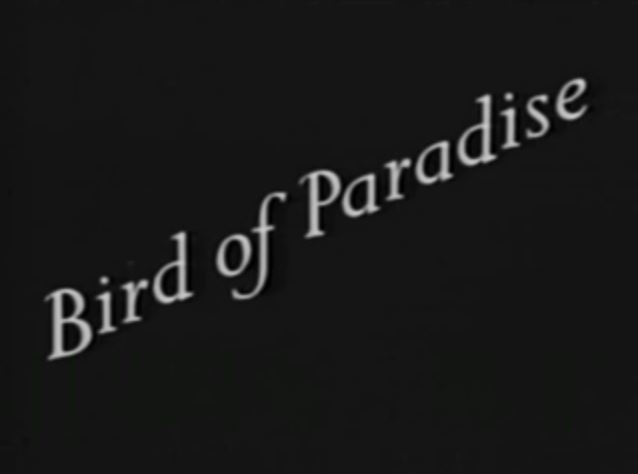 Screenshot of the title of the public domain film Bird of Paradise (1932).